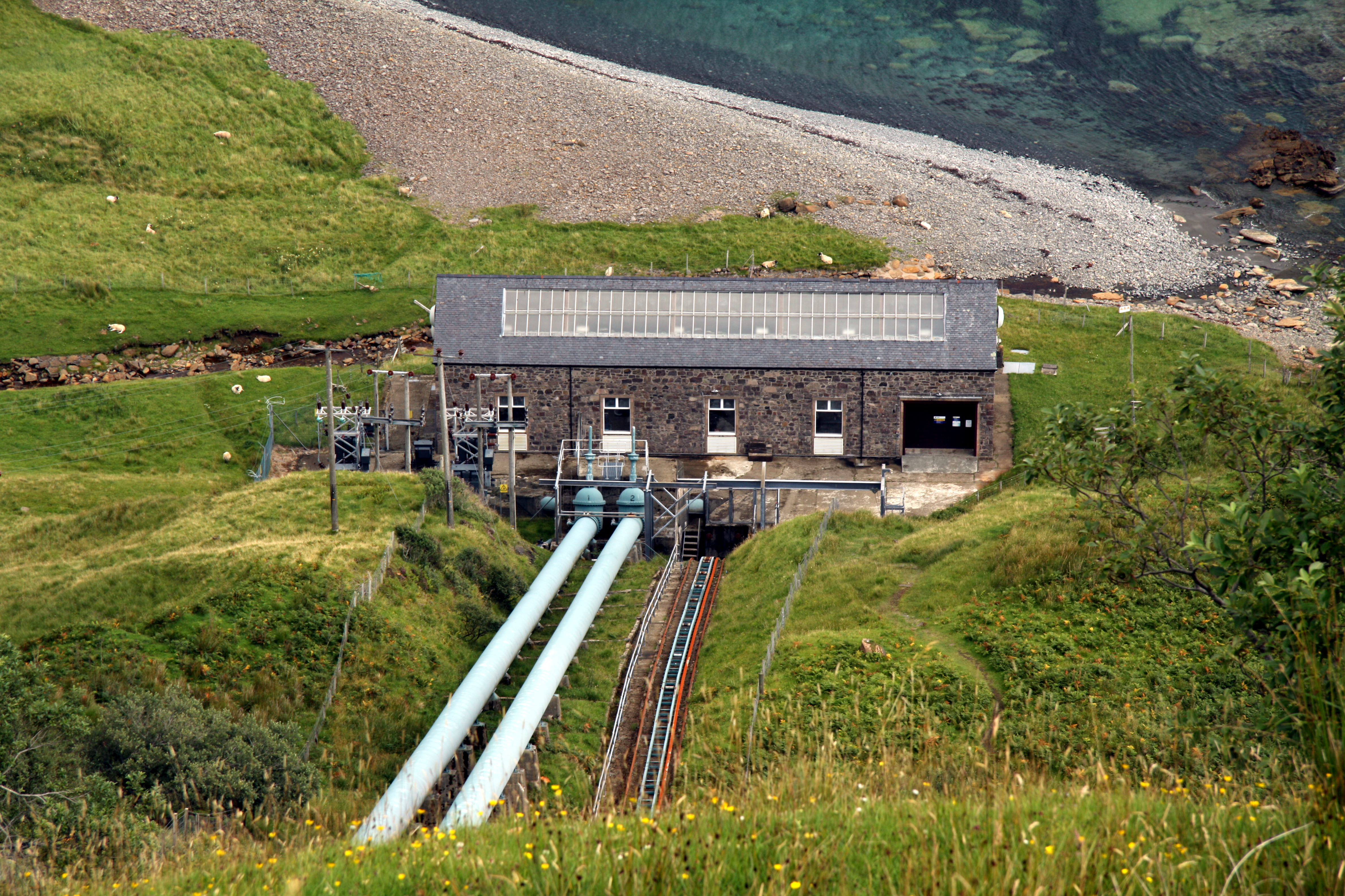 Loch Leathan Dam during Skye trail, Isles of Skye, Inner Hebrids, Scotland